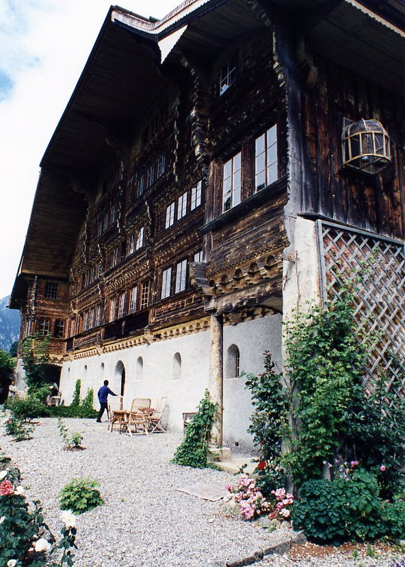 My photo of Balthus's Grand Chalet taken in 1996 in Switzerland during the film shoot of Balthus Through the Looking Glass.